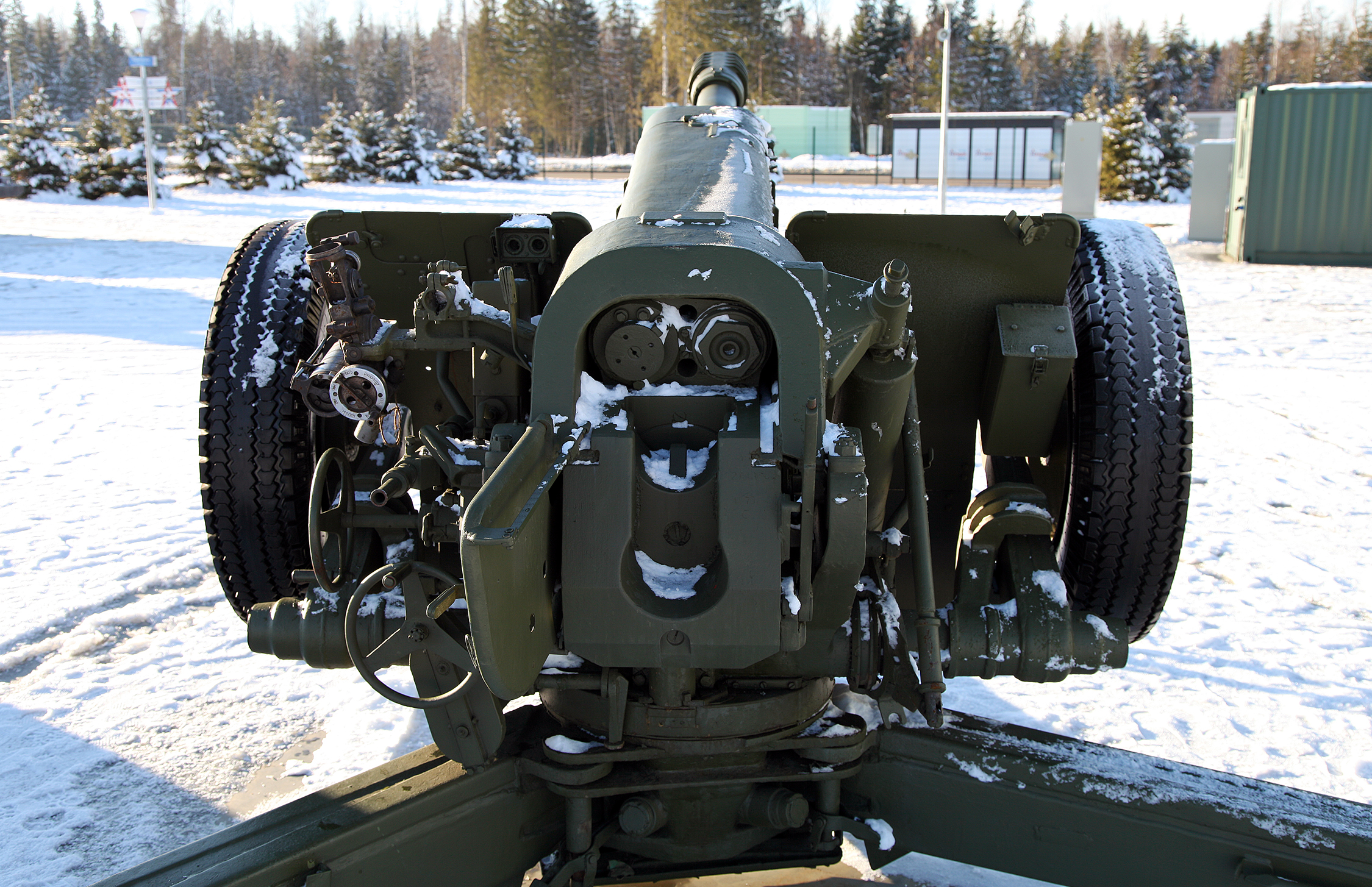 122mm howitzer 2A18 D-30